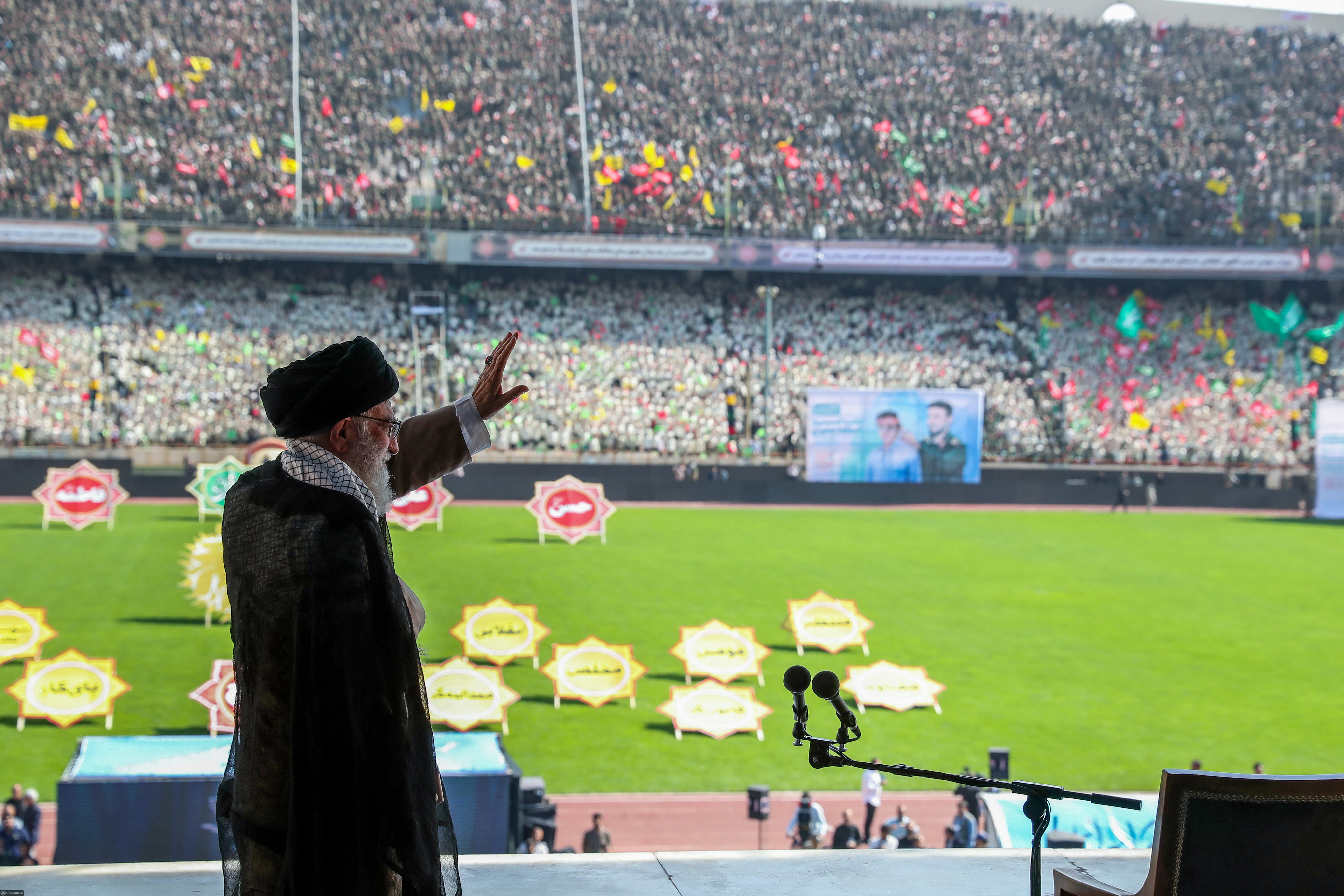 Great Conference of Basij members at Azadi stadium, 4 October 2018